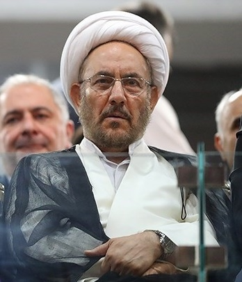 Ali Younesi